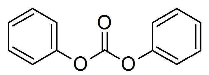 Chemical structure of Diphenyl carbonate